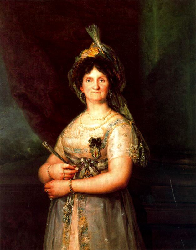 Portrait of queen Maria Luisa of Parma (1751-1819).